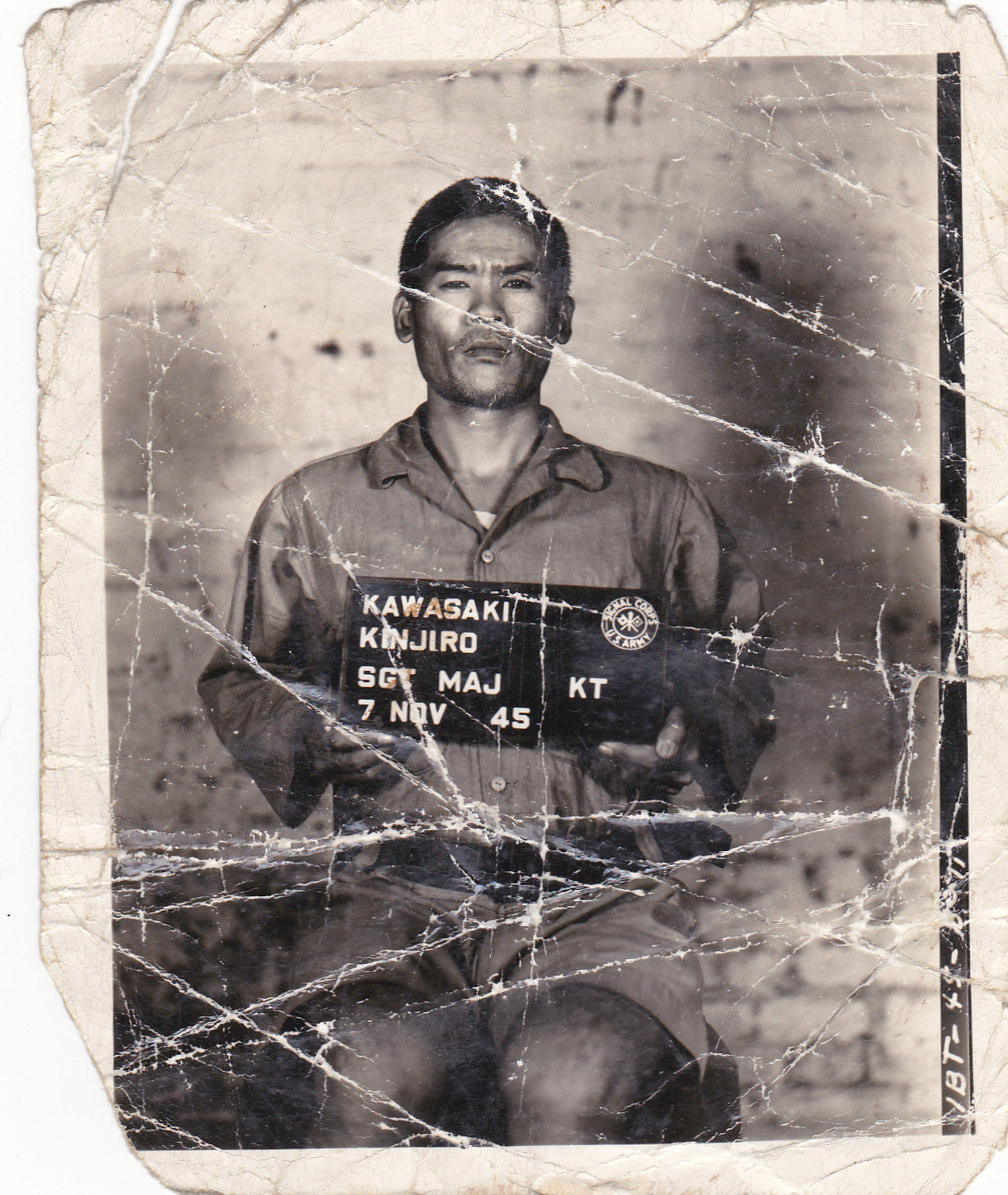 Sentenced to 3 years in Rangoon jail, then deported back to Japan. My father, Sgt Vic Johnson, Int. Corps, dealt with this man and brought the photo home.